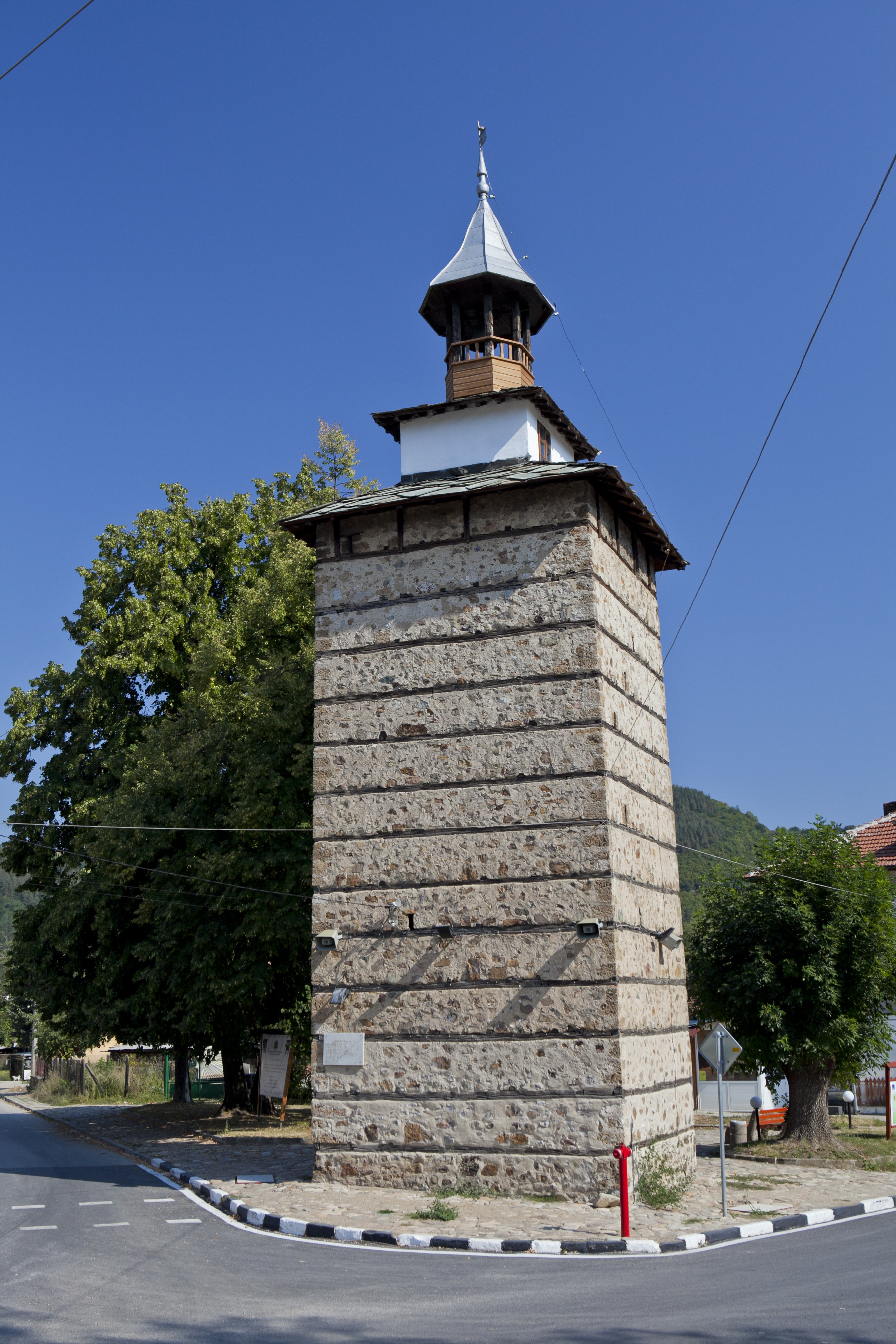 The Clock in Etropole